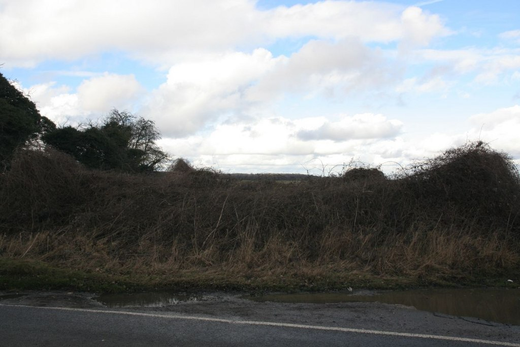 ROC post in the weeds View of where the ROC post is near Streatley. Hard to believe there used to be a six-foot fence there.